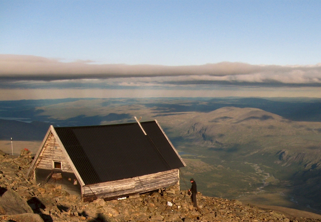 Old peak cottage on Kebnekaise, built 1924